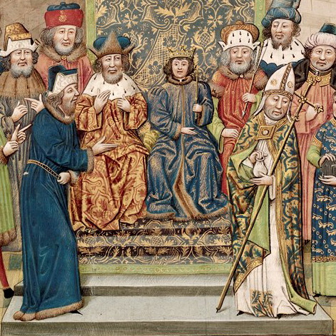 Richard II of England with his court after his coronation. (British Library, Royal 14 E IV f. 10)